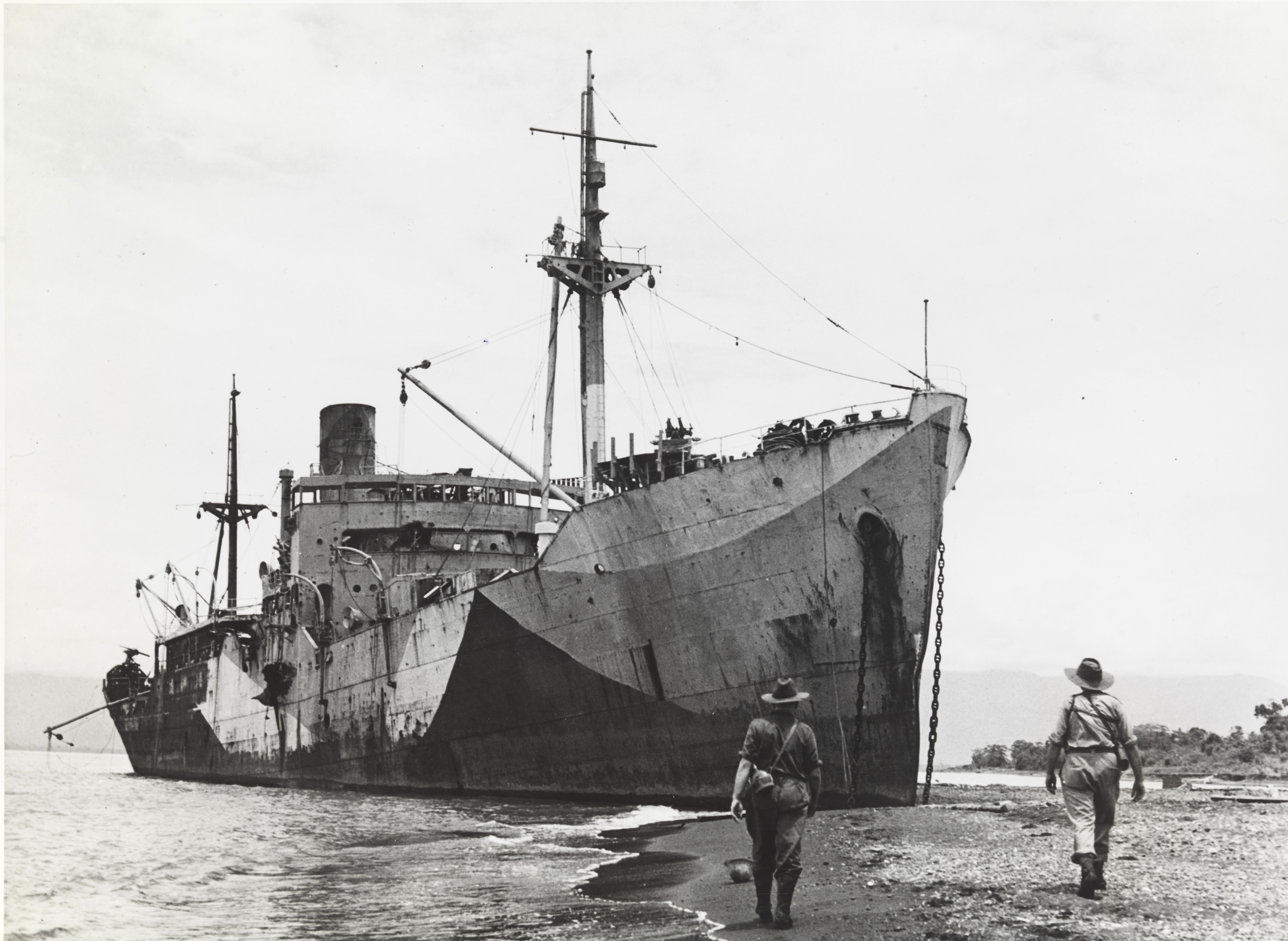 New Guinea. Fall of Lae. The wrecked Japanese ship Myoko Maru(妙高丸) aground on a beach near Lae.